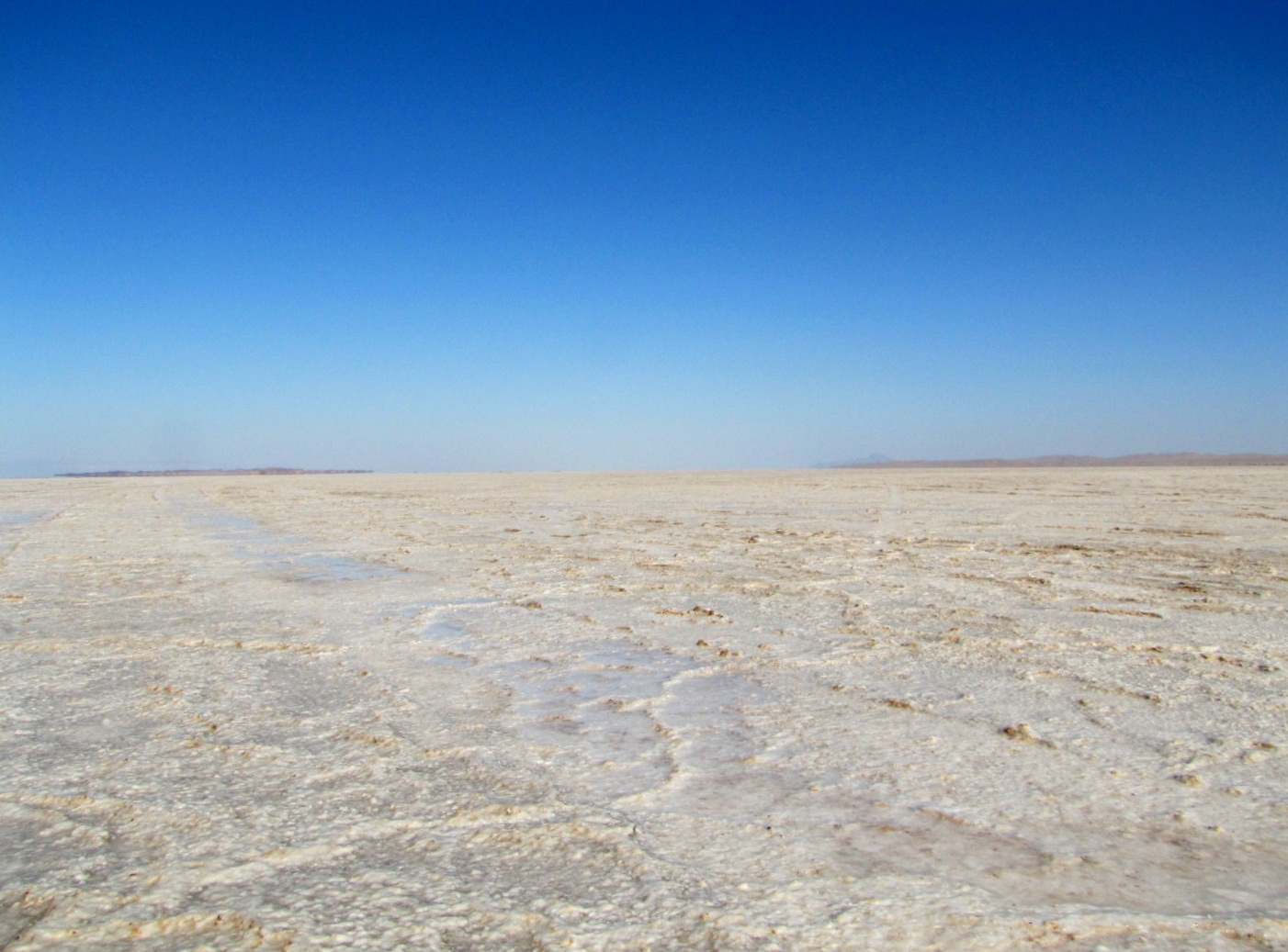 Desert Of Qom, Iran.